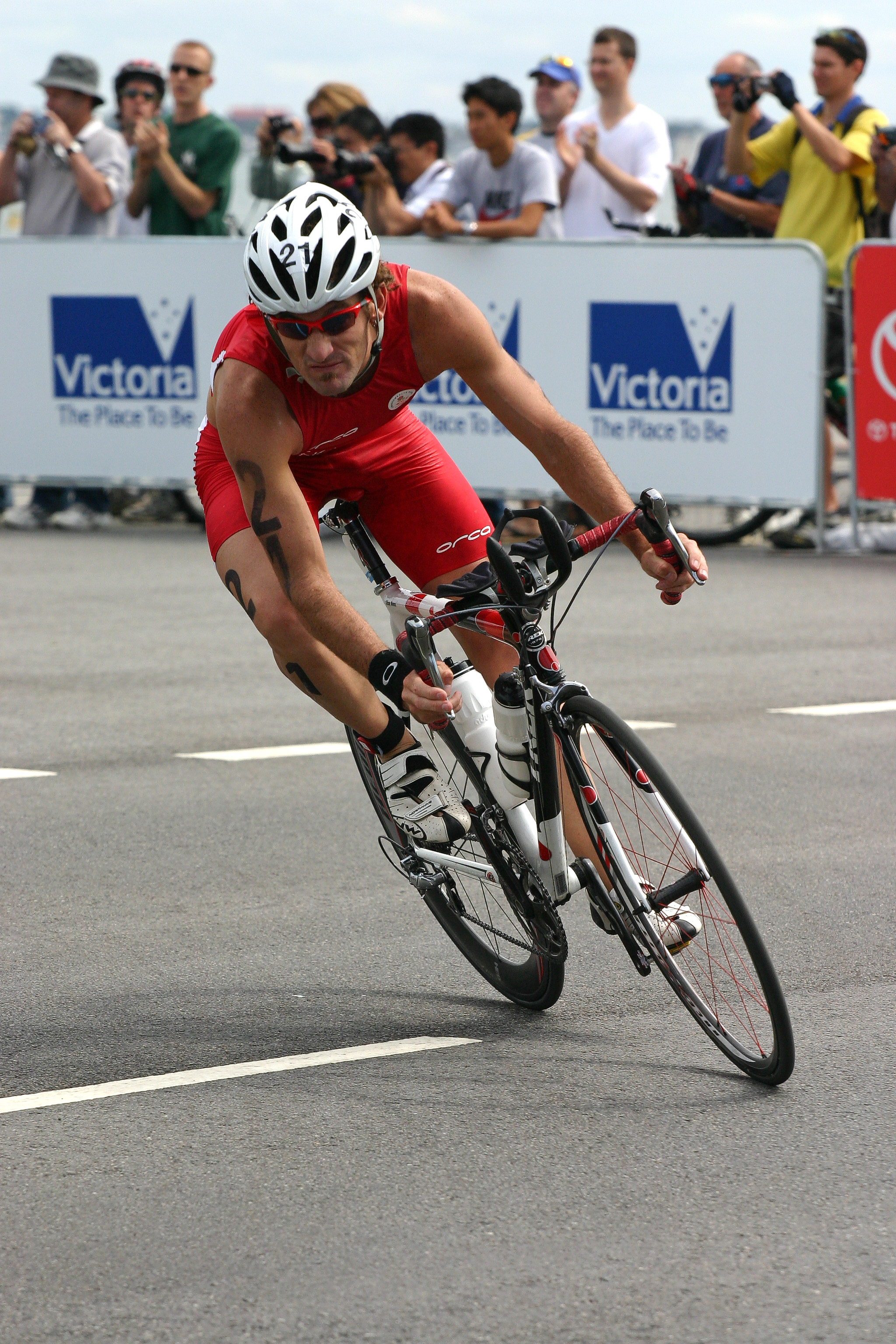 Commonwealth Games triathlon held on Beach Road, St Kilda.